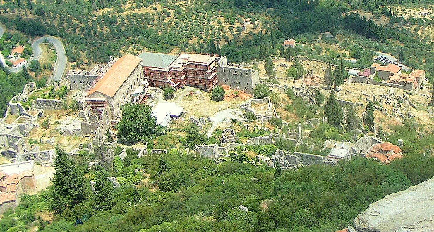 Palace of Mystras